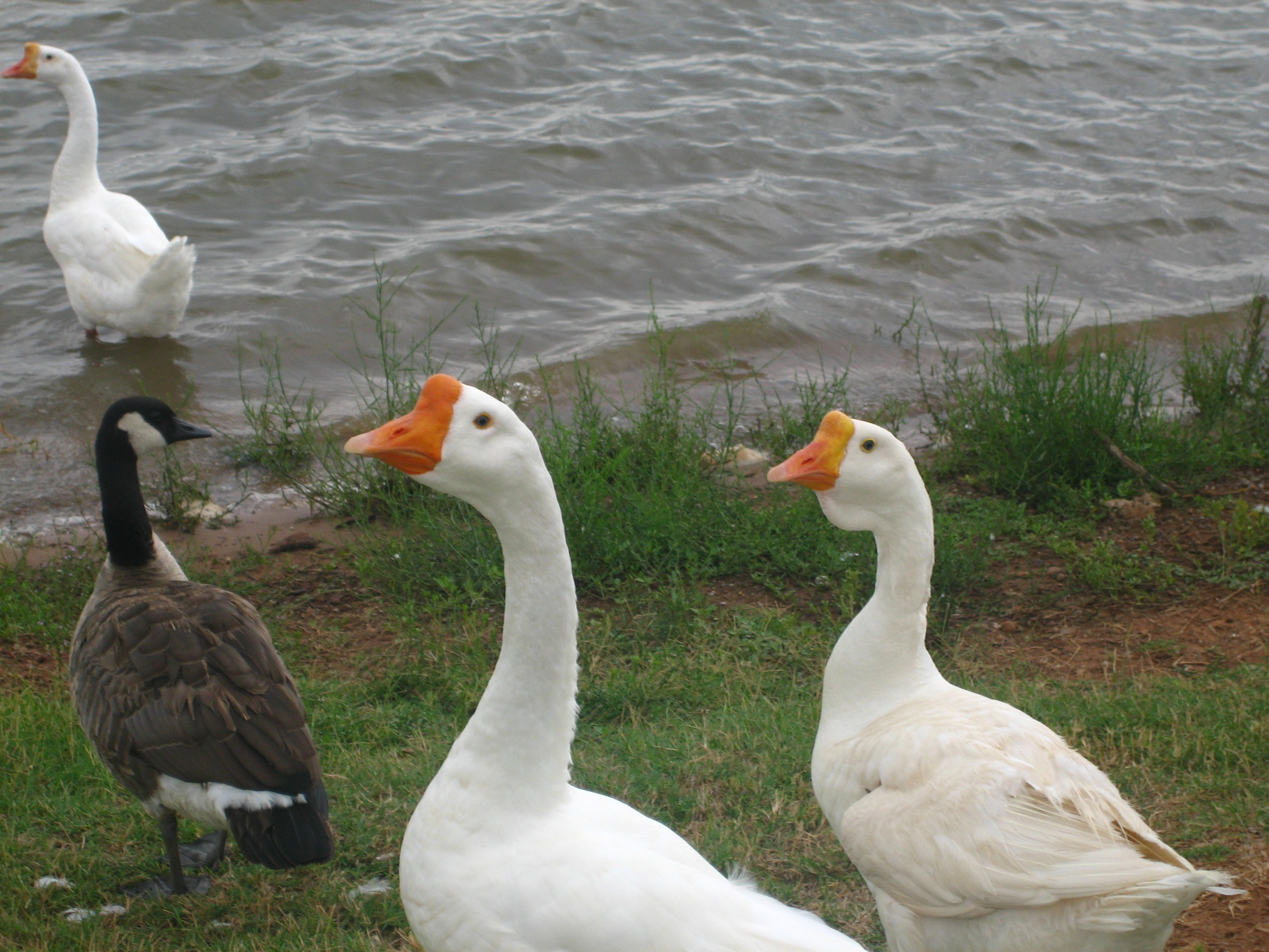 I took photo on July 16, 2008.Billy Hathorn (talk) 02:39, 24 July 2008 (UTC)